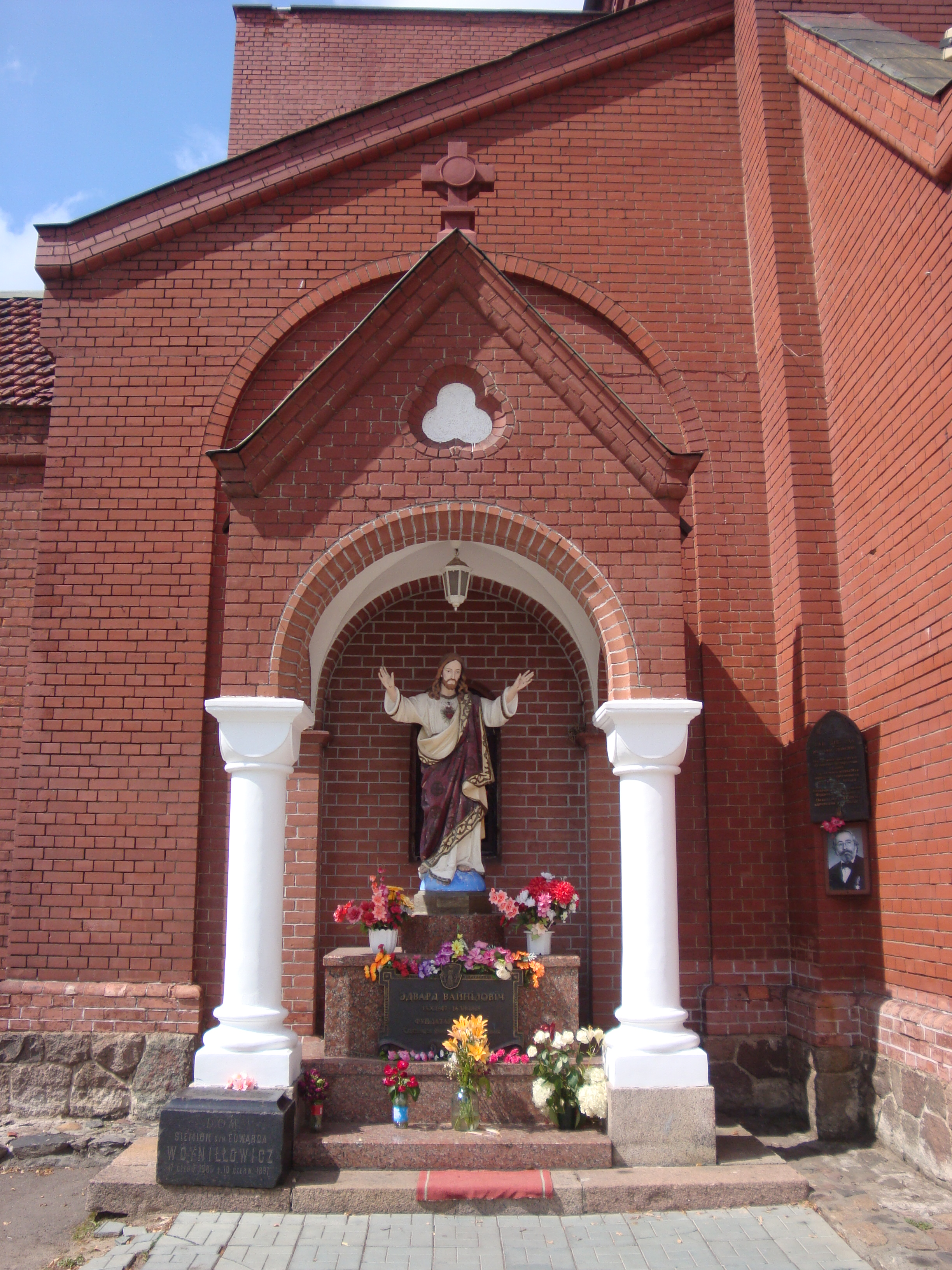 burial place of Edward Woynillowicz in Minsk near Church of Saints Simon and Helena (Belarus)